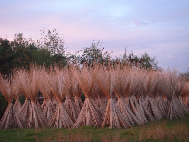 Picture of transformed Jute locally known as Path Khori